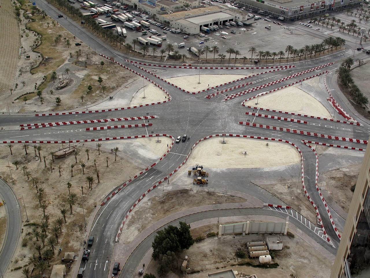 After the monument in the center of the Pearl Roundabout was demolished by the Bahraini government, they converted the roundabout into a traffic junction. This image shows the junction under construction.